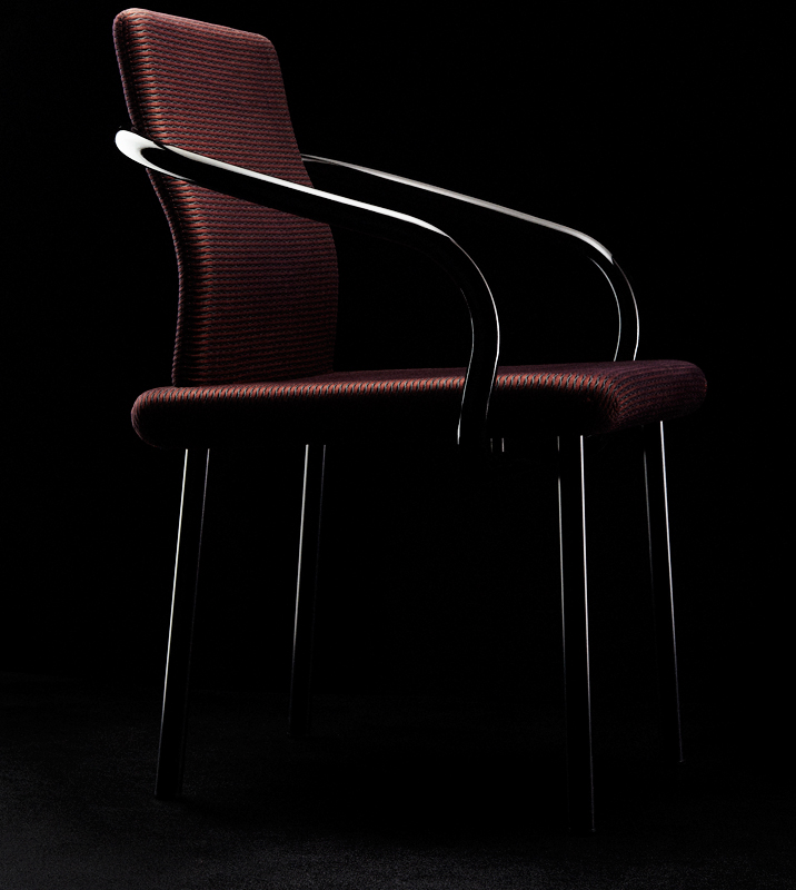 Knoll Mandarin Chair Ettorre Sottsass